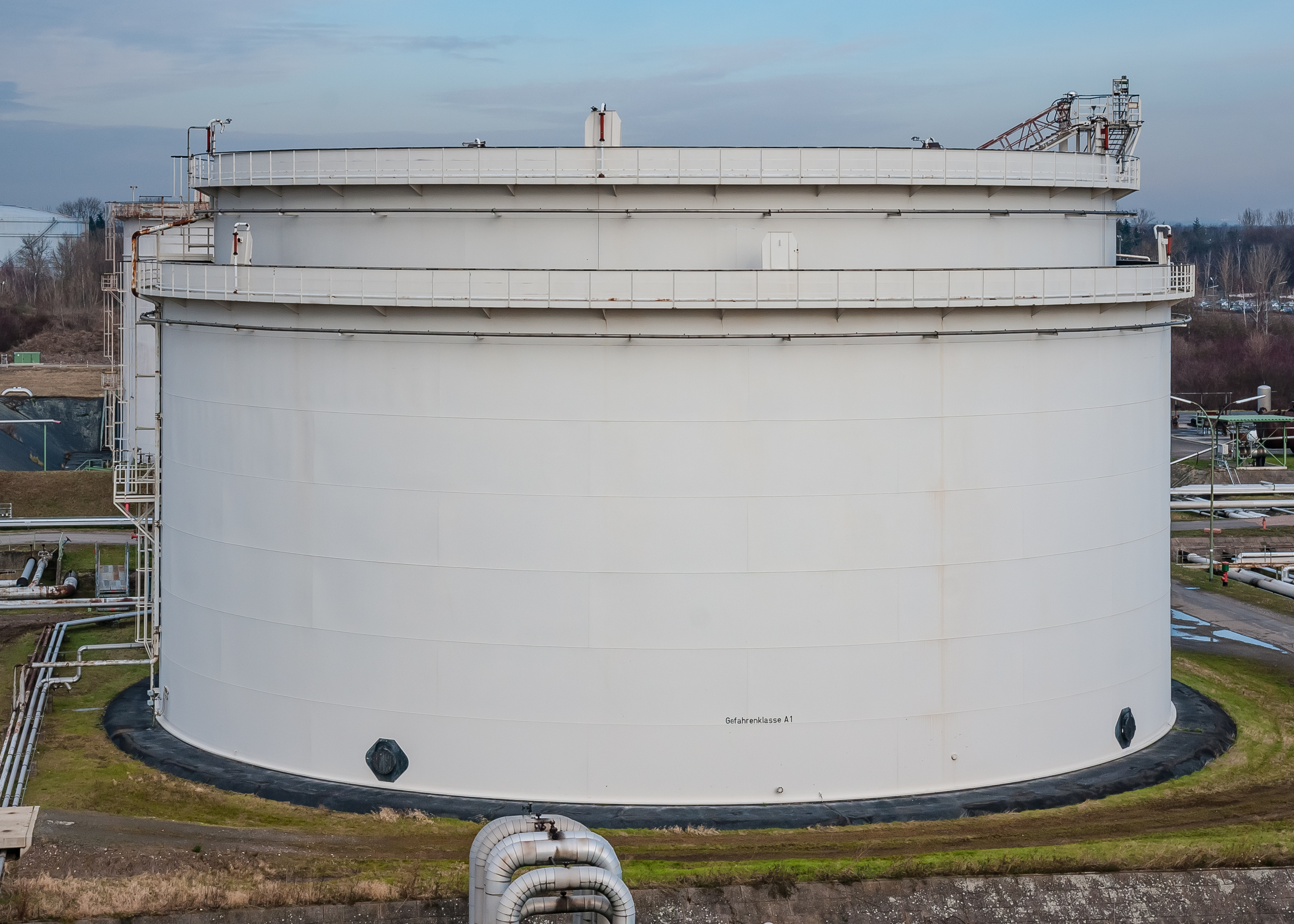 Cologne, Germany: A tank-in-tank system, whereas the inner tank is containing water hazardous fluids and the second wall serves a containment, if the inner wall is experiencing a leakage. The loss will be enclosed in the space between the two tank walls.